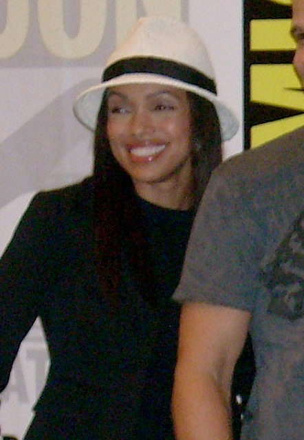 Tamara Taylor, David Boreanaz, Michaela Conlin, John Francis Daley